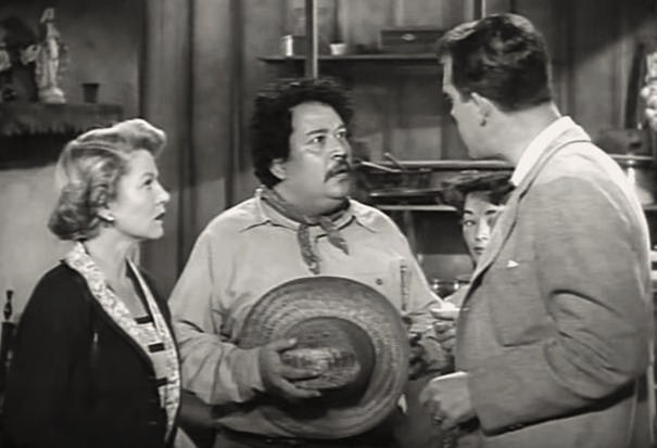 L. to R. : Claire Trevor, Nacho Galindo & Fred MacMurray in Borderline - cropped screenshot